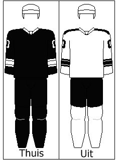 Uniform of the TPS ice-hockey team in the SM-liiga in Finland (in Dutch)